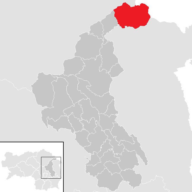 district Weiz